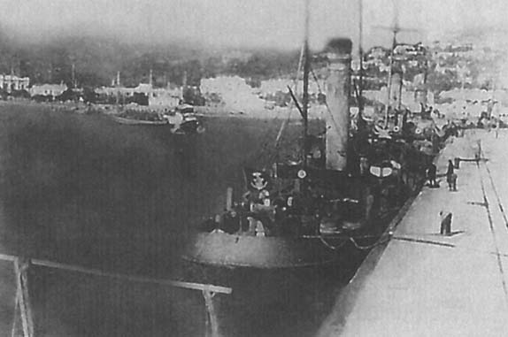 Gunboat Budyonnyy in the port of Yalta. 1921.